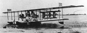 The NC-4, 1919